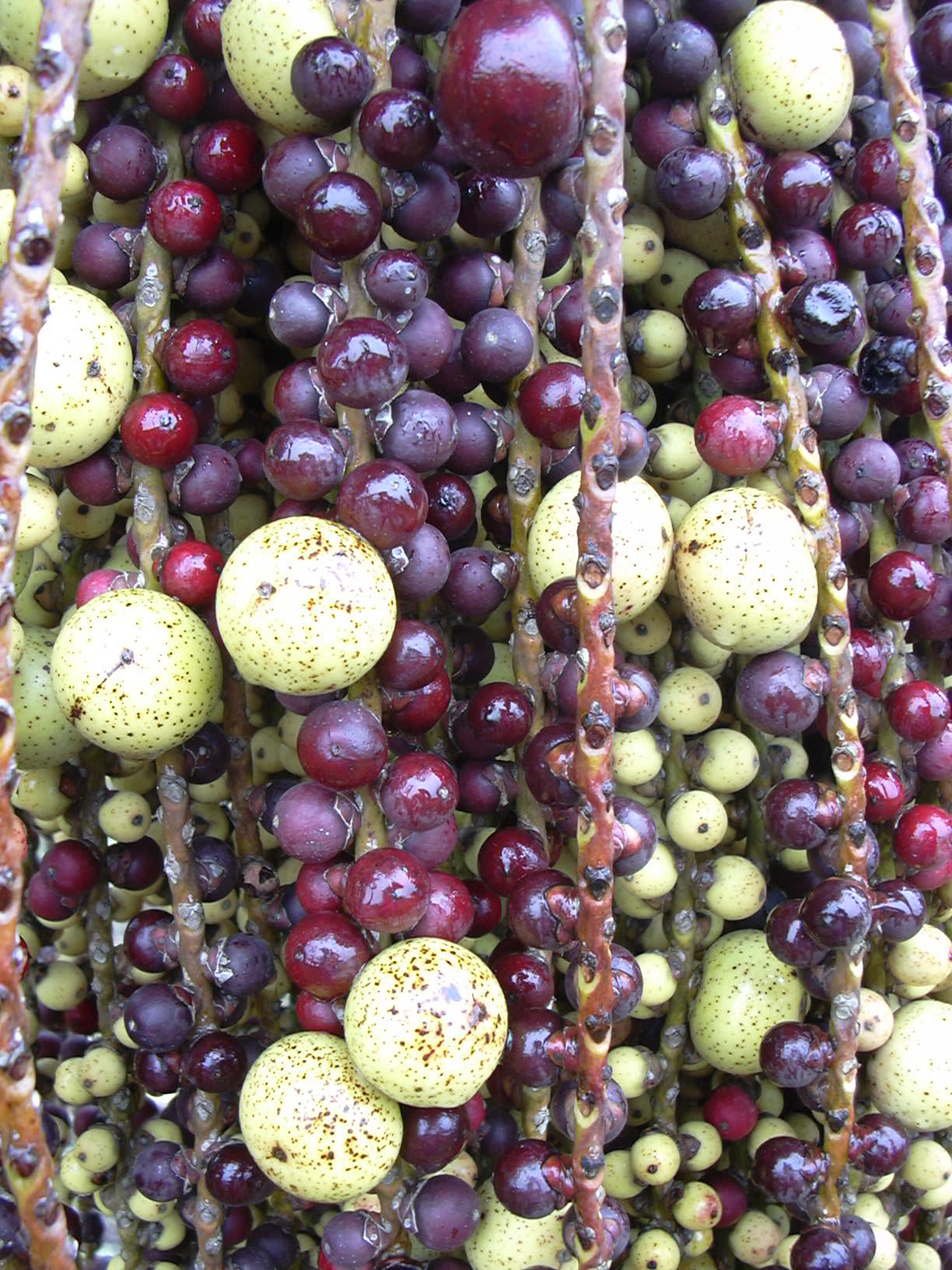 Caryota urens (fruits). Location: Hawaii, Hilo